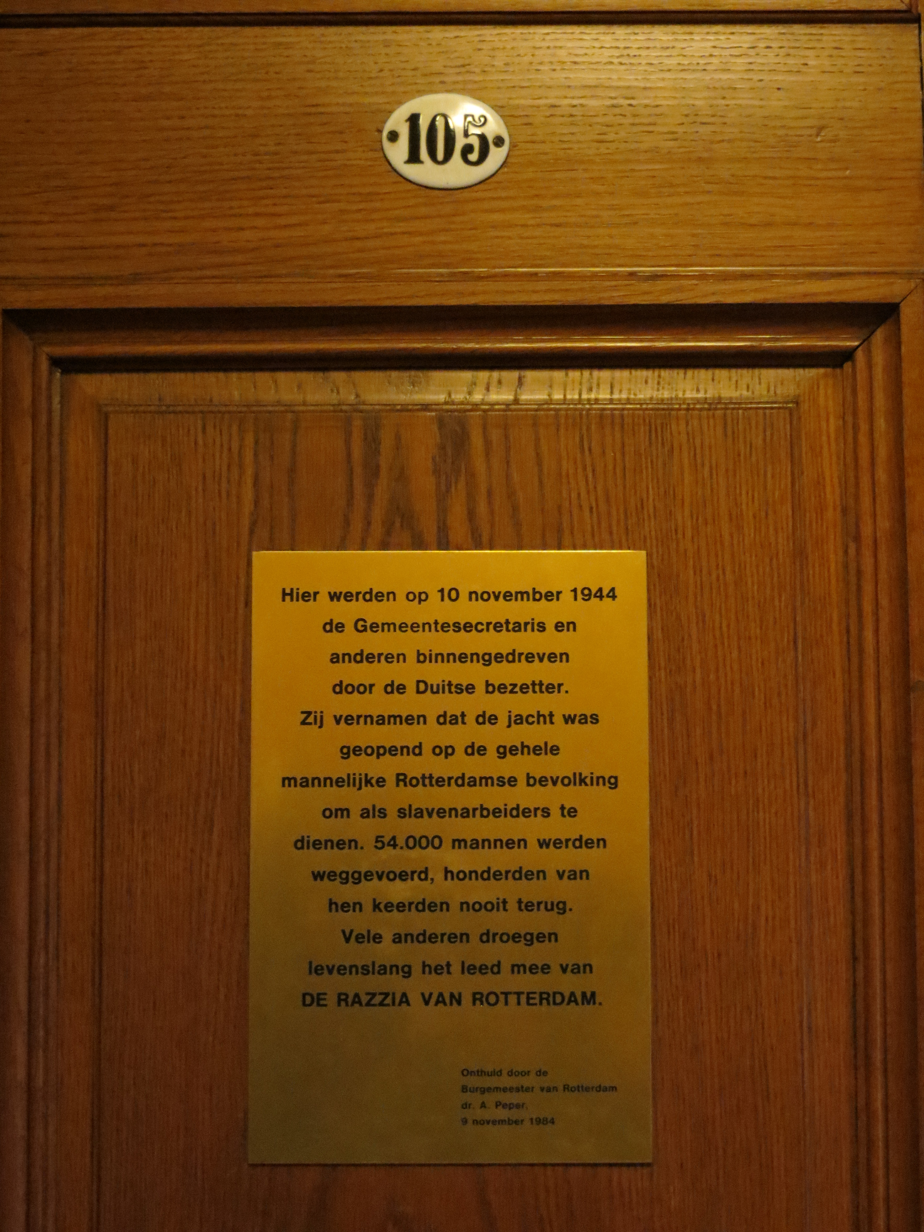 The monument 'The Raid of Rotterdam' in Rotterdam is a bronze plaque attached to the door next to the meeting room of the executive board of the municipality in the city hall, located at Coolsingel number 40 in Rotterdam. It was unveiled on November 9, 1984 and commemorates the beginning of 'The Raid Rotterdam' in which 54,000 men were deported to work as slave laborers. Hundreds of them did not return.